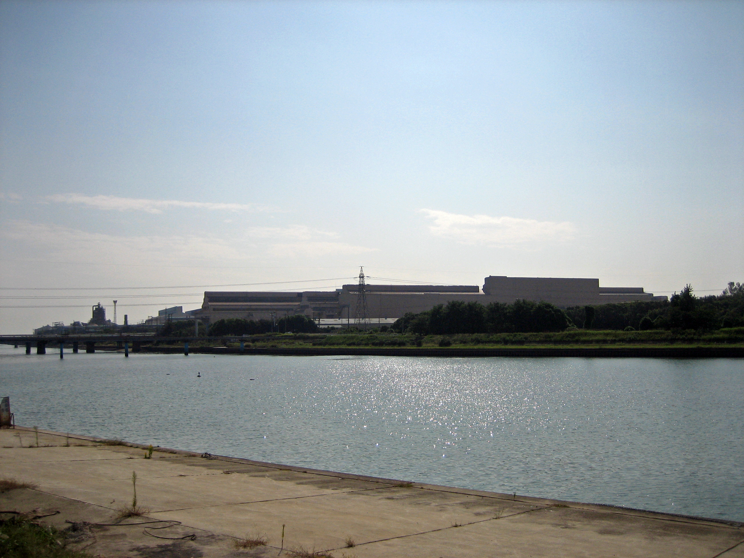 Nippon Steel Corporation Hirohata ironworks.